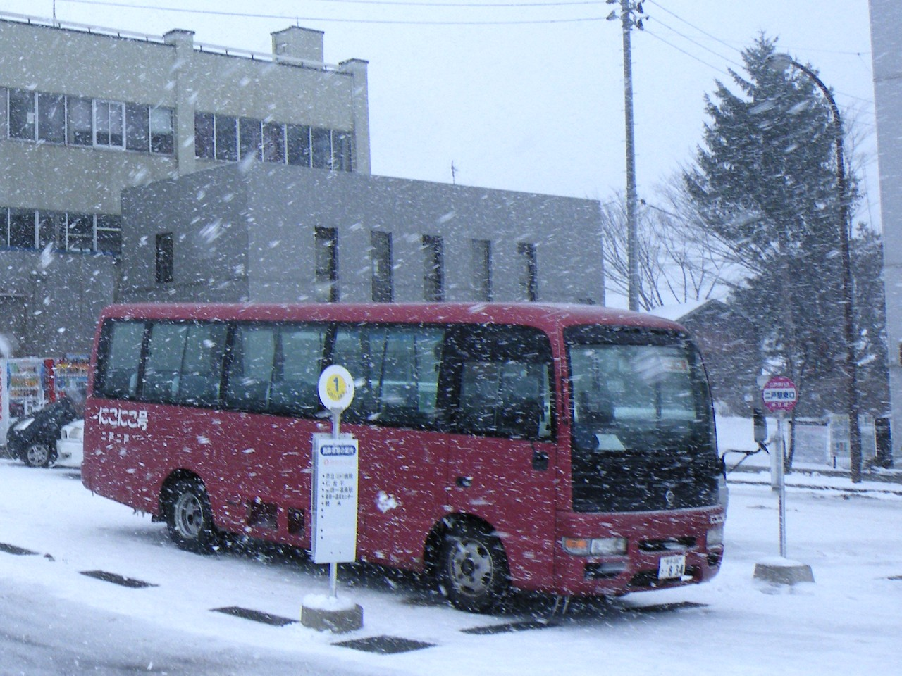 Ninohe City Bus "Niko Niko Go"